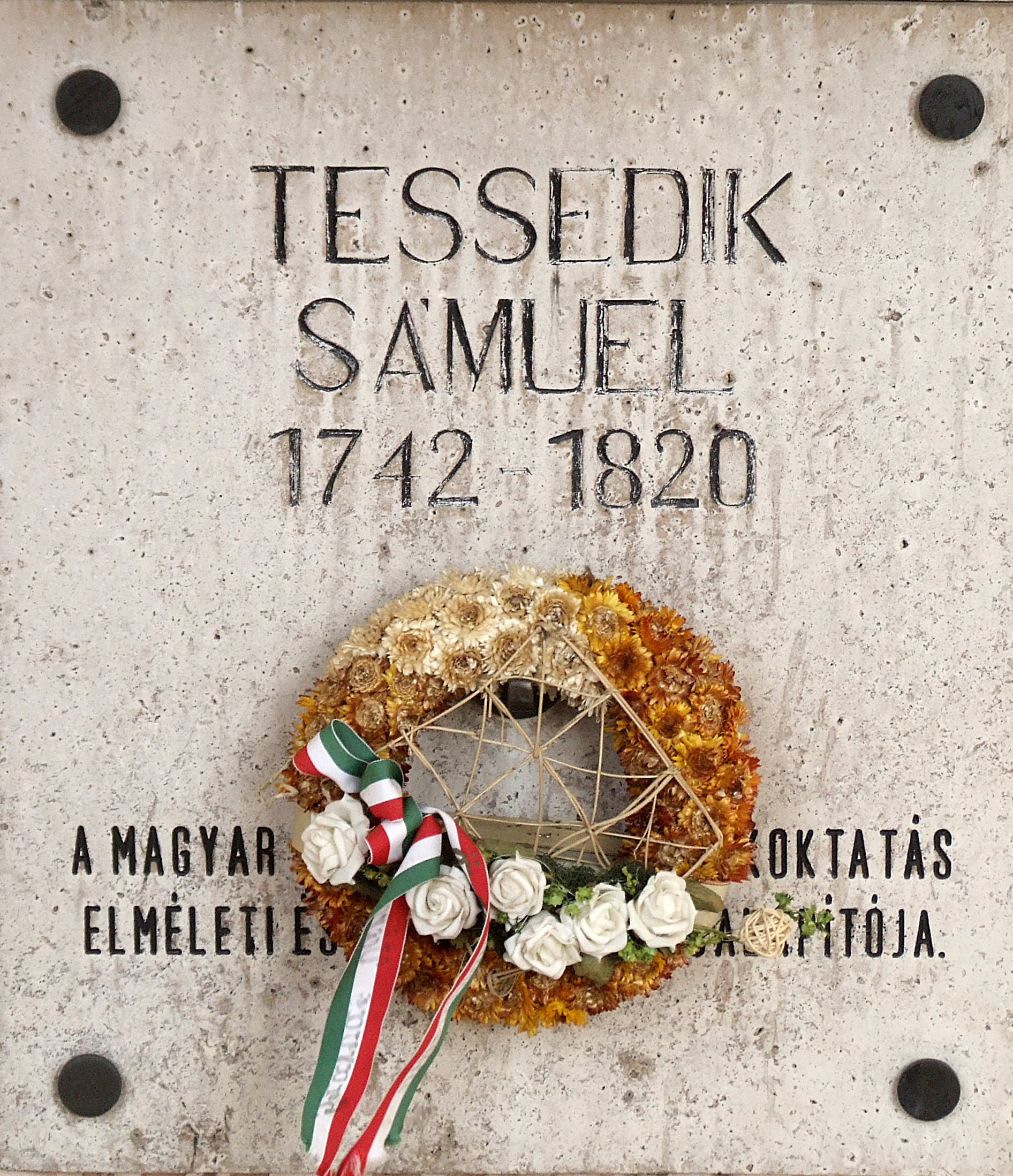 Sámuel Tessedik commemorative plaque in Budapest District V, Kossuth Square No 11.